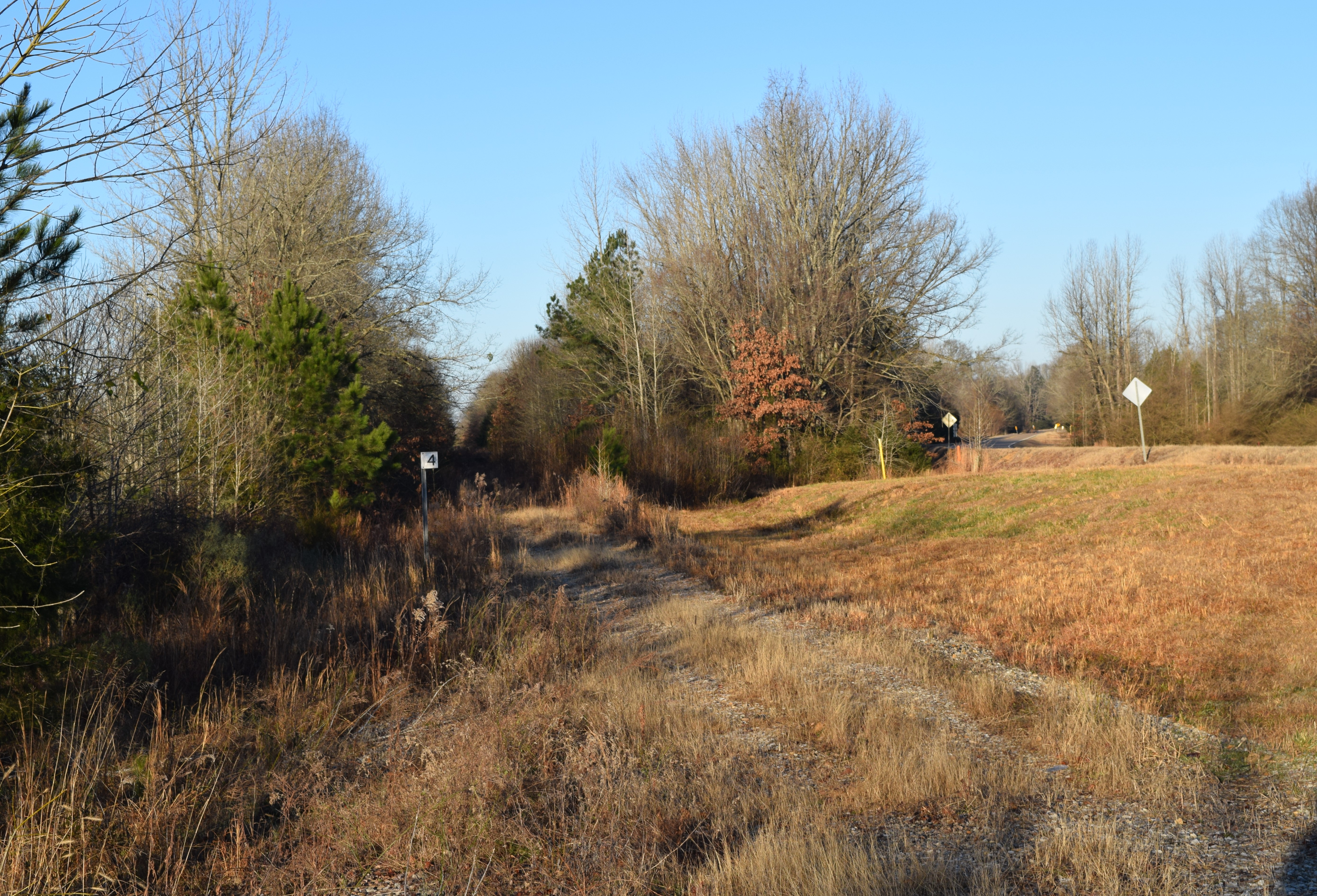 Looking west towards Coffeeville along the Mississippi and Skuna Valley Railroad right of way at its intersection with Yalobusha County Road 221. Mississippi Highway 330 is in the background at right.